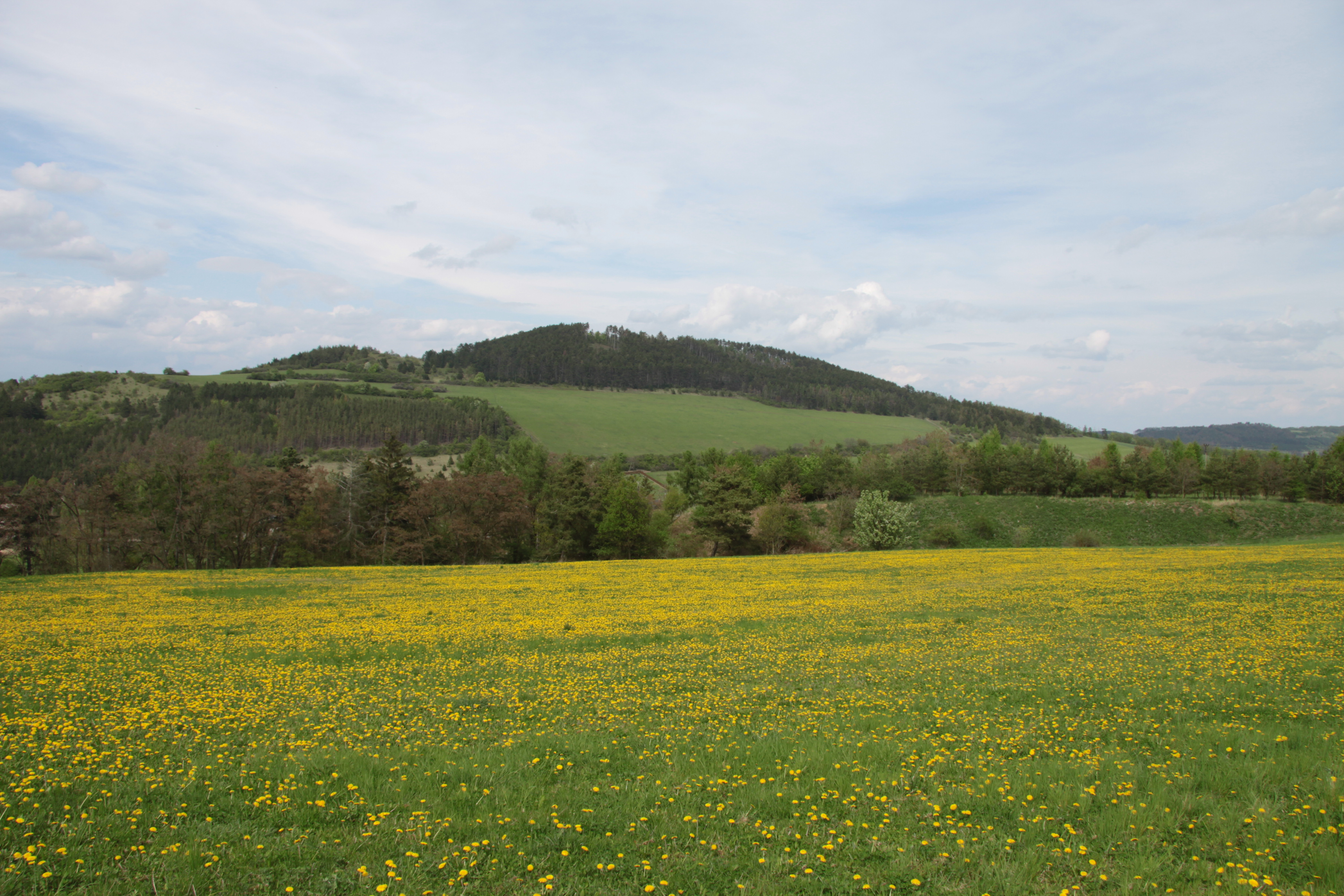 Koukol's hill - Český kras.